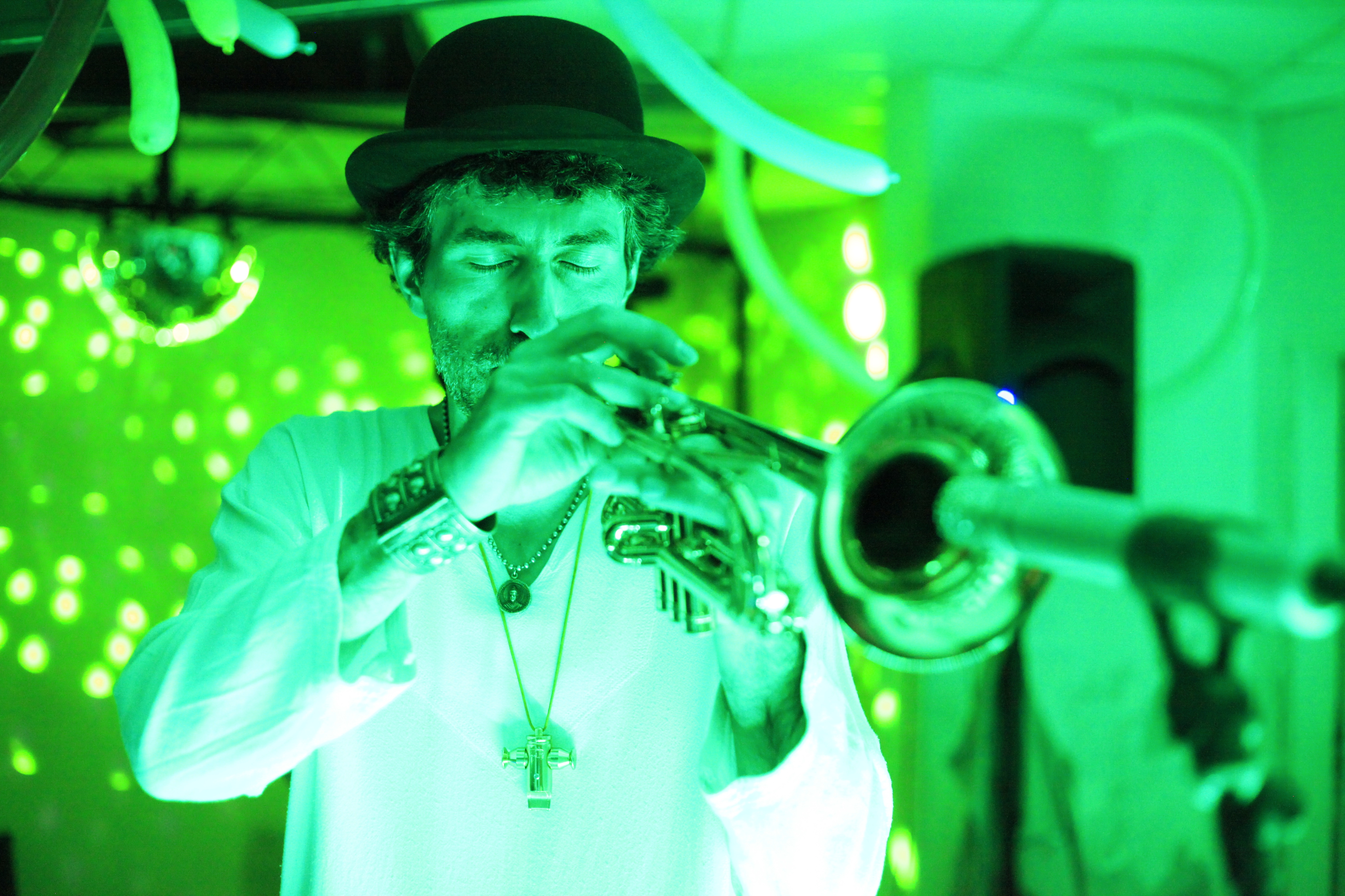 Rossen Zahariev - trumpeter and composer